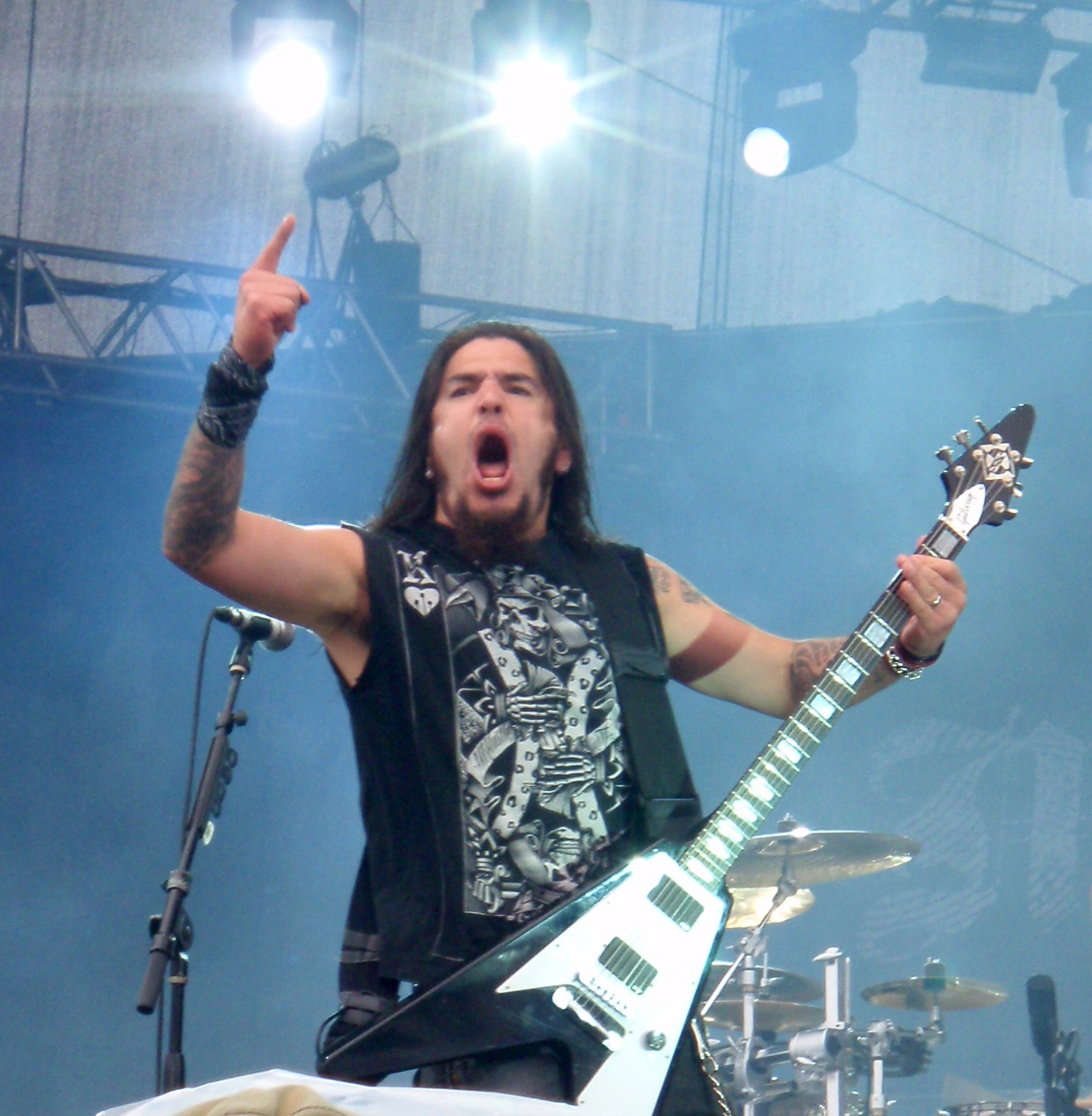 Robb Flynn from Machine Head performing at Sonisphere Festival in Kirjurinluoto, Pori, Finland.